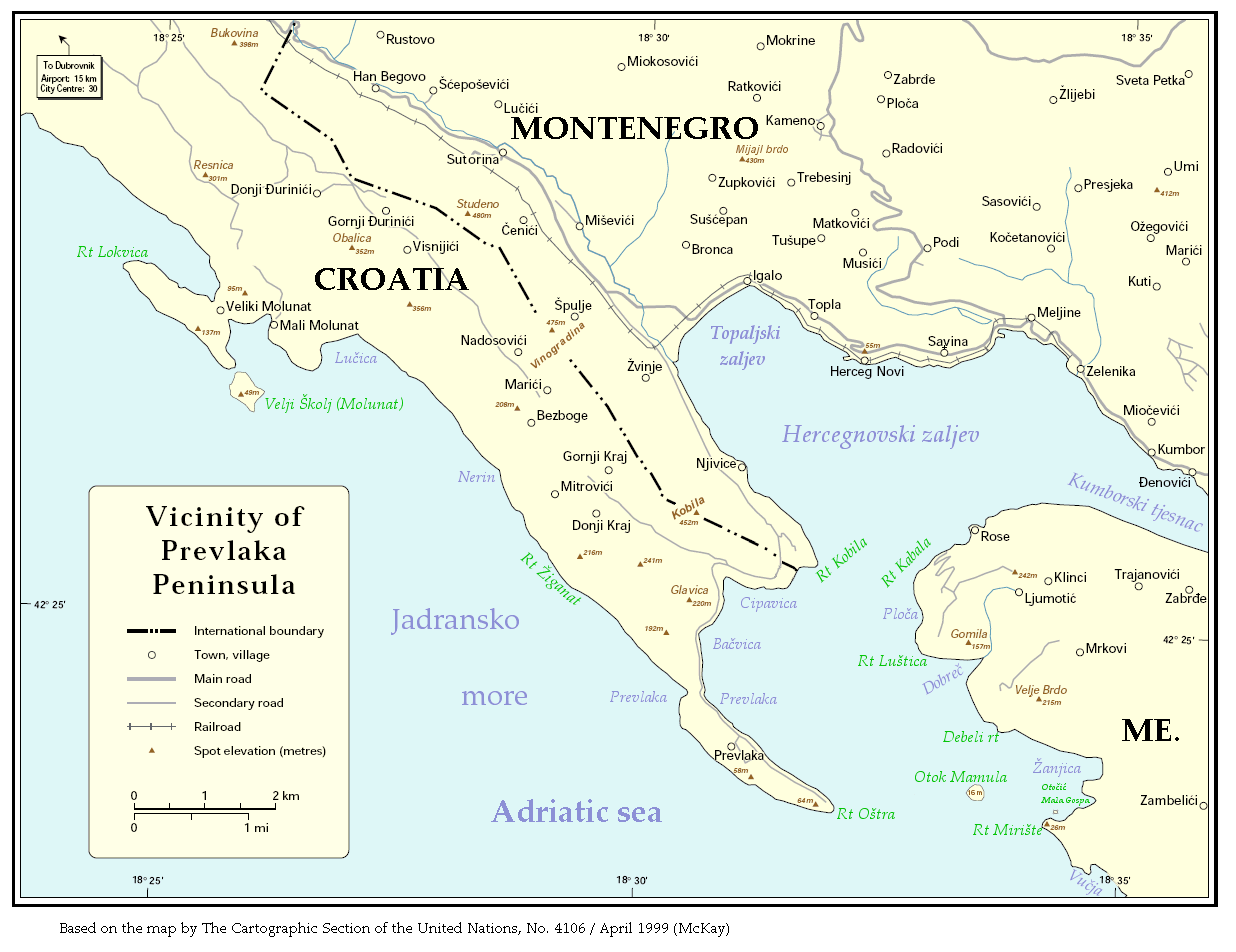 Map of the Vicinity of Prevlaka peninsula in Croatia, and its surrounding in the Republic of Croatia and the Republic of Montenegro